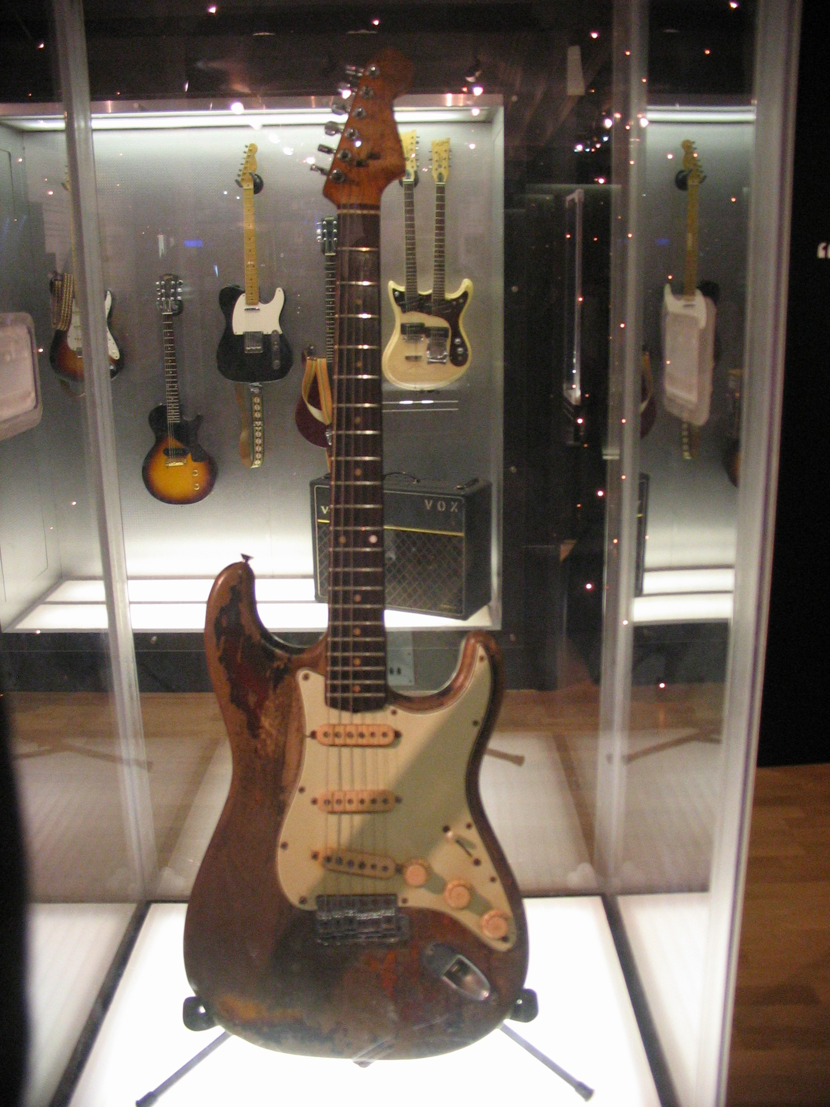 Rory Gallagher's 1961 Fender Stratocaster